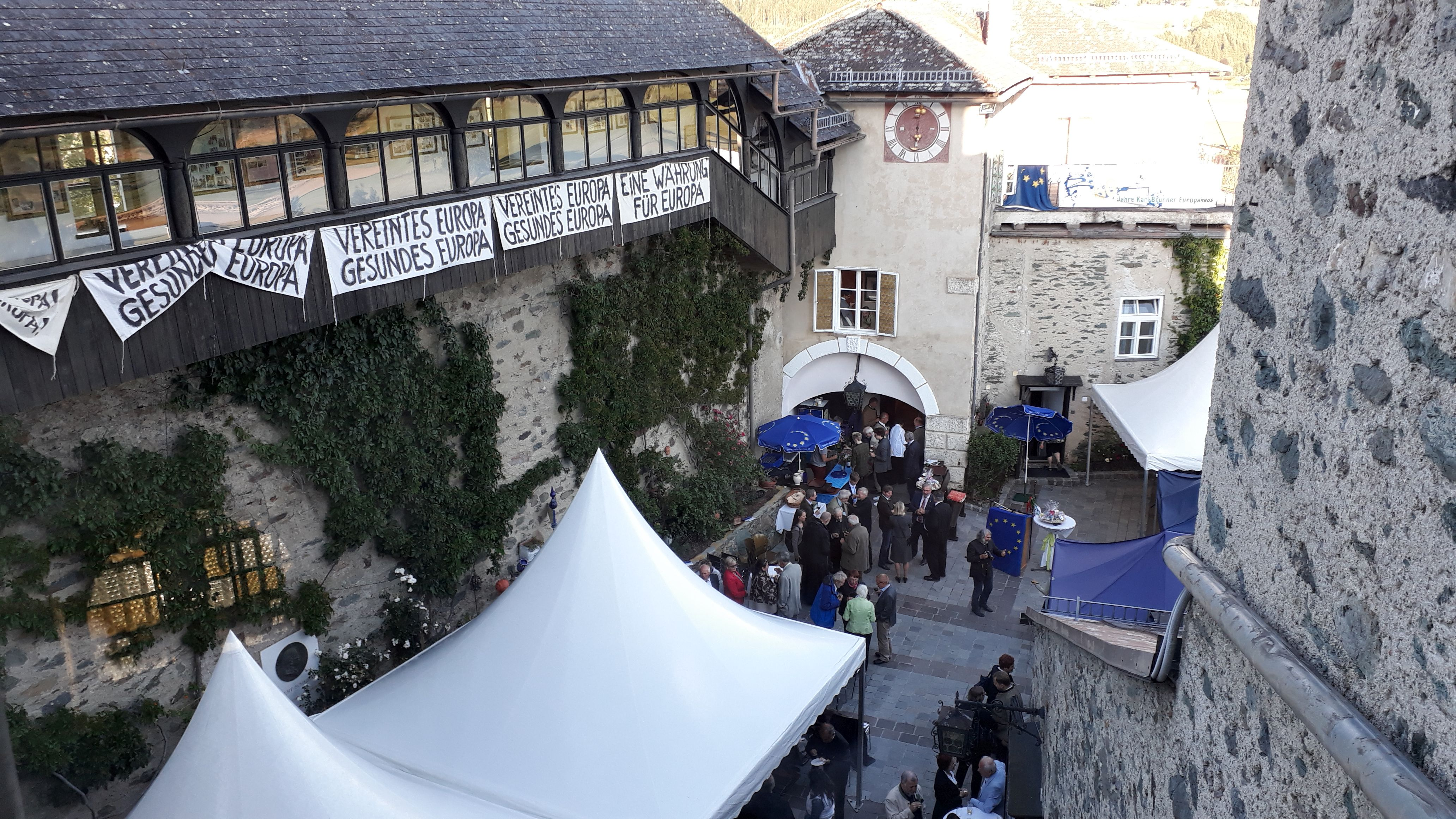 Forchtenstein Castle in Styria (Neumarkt)